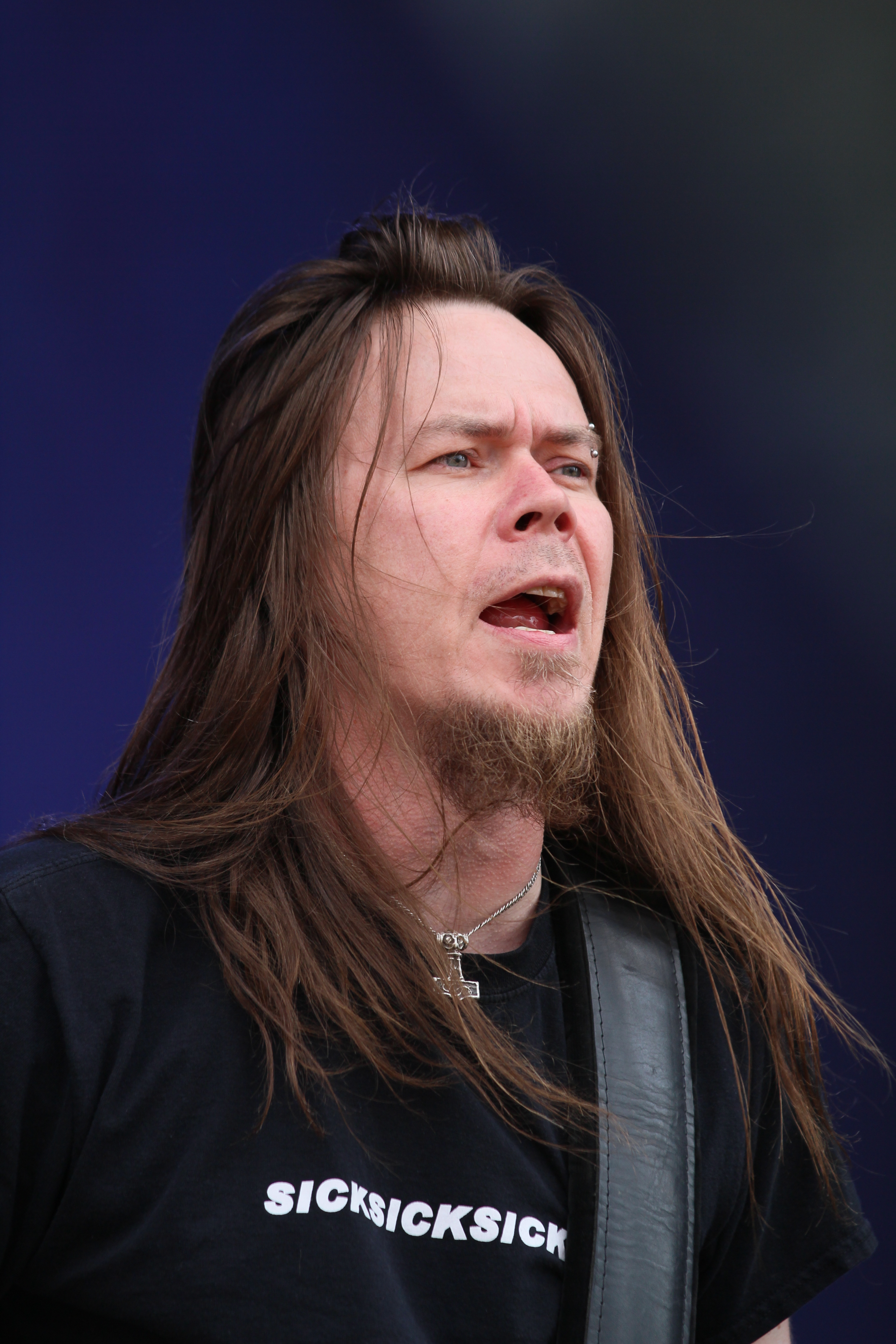 The Swedish death metal band Unleashed at the Rockharz Open Air 2014 in Ballenstedt/Germany